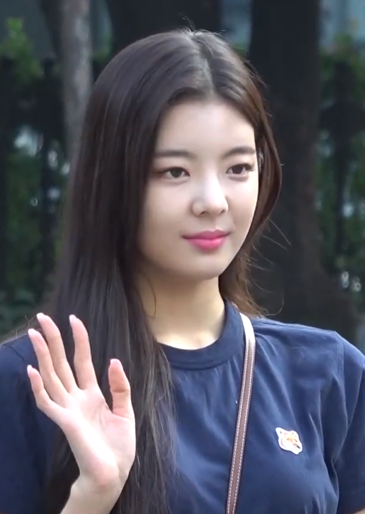 Lia going to a Music Bank recording on August 8, 2019.